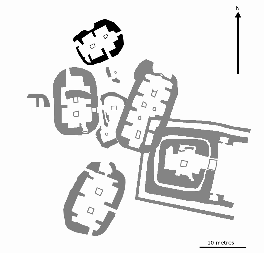 Plan of the Ness of Brodgar with structure #14 highlighted.